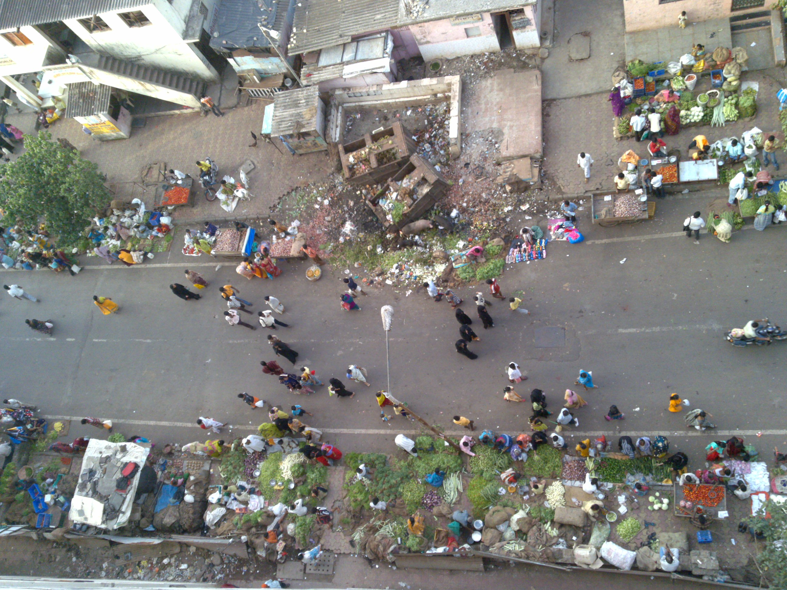 Inside the Dharavi slum in Mumbai, India The main road passes through Dharavi. On both sides of the road, one can find retail / farmer's market.